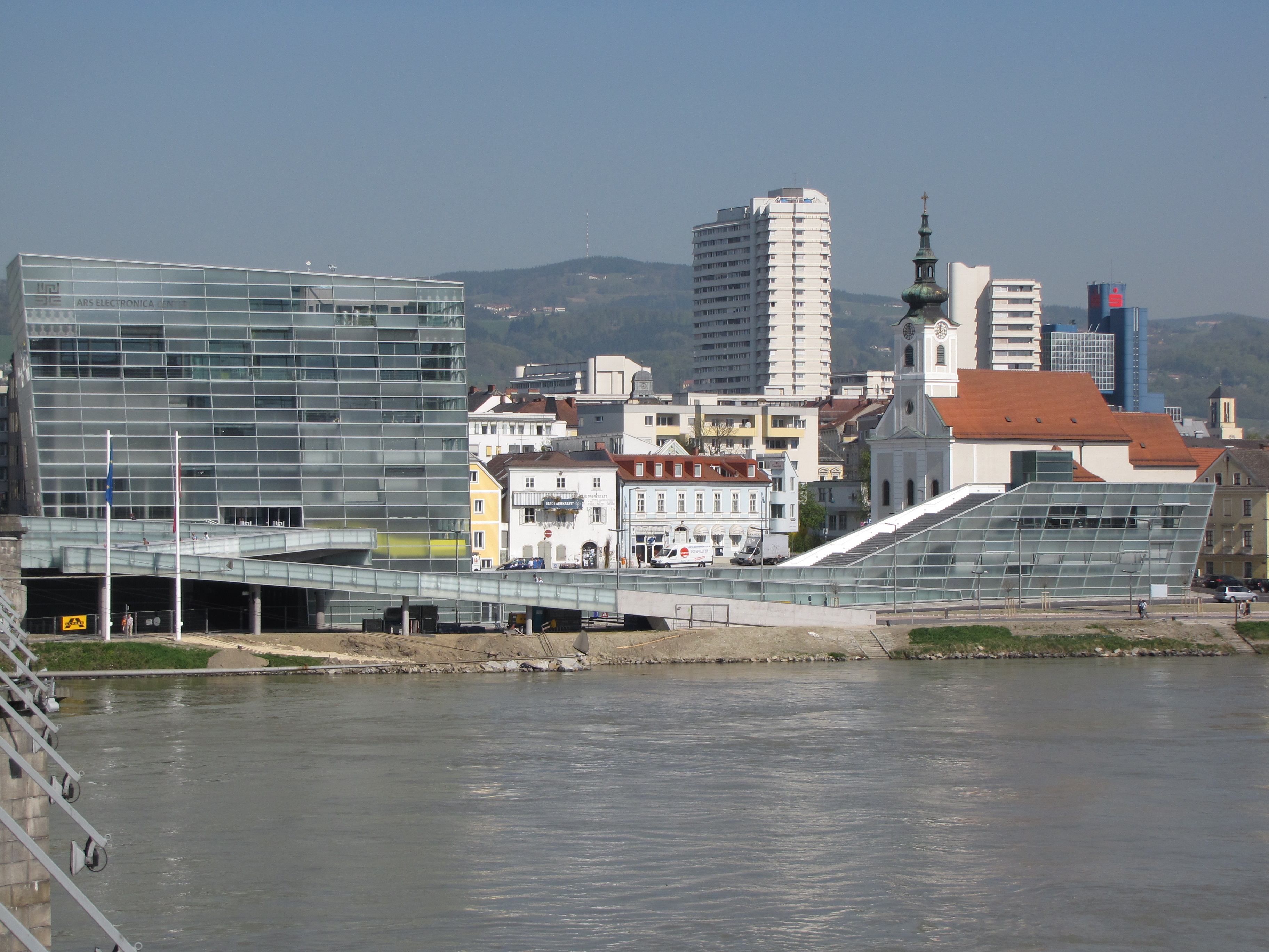 Ars electronica center, Stadtwerkstadt, Lentia 2000, Parish church Urfahr. In the background the Gis (Lichtenberg).